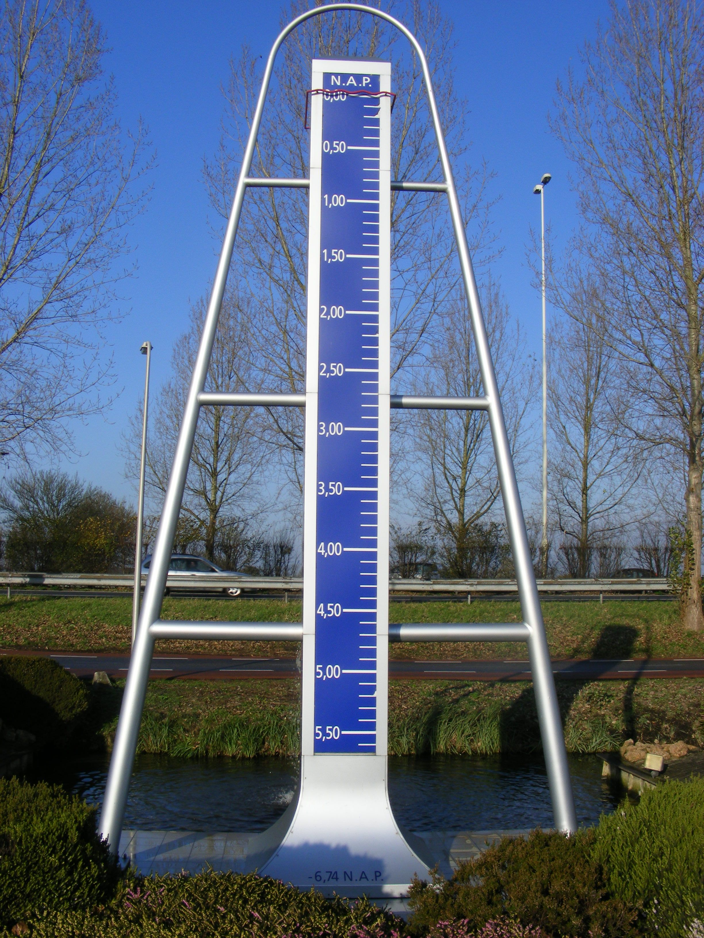 Monument marking the lowest elevation in the Netherlands: 6.74 meters below sea-level (Amsterdam Ordnance Datum).